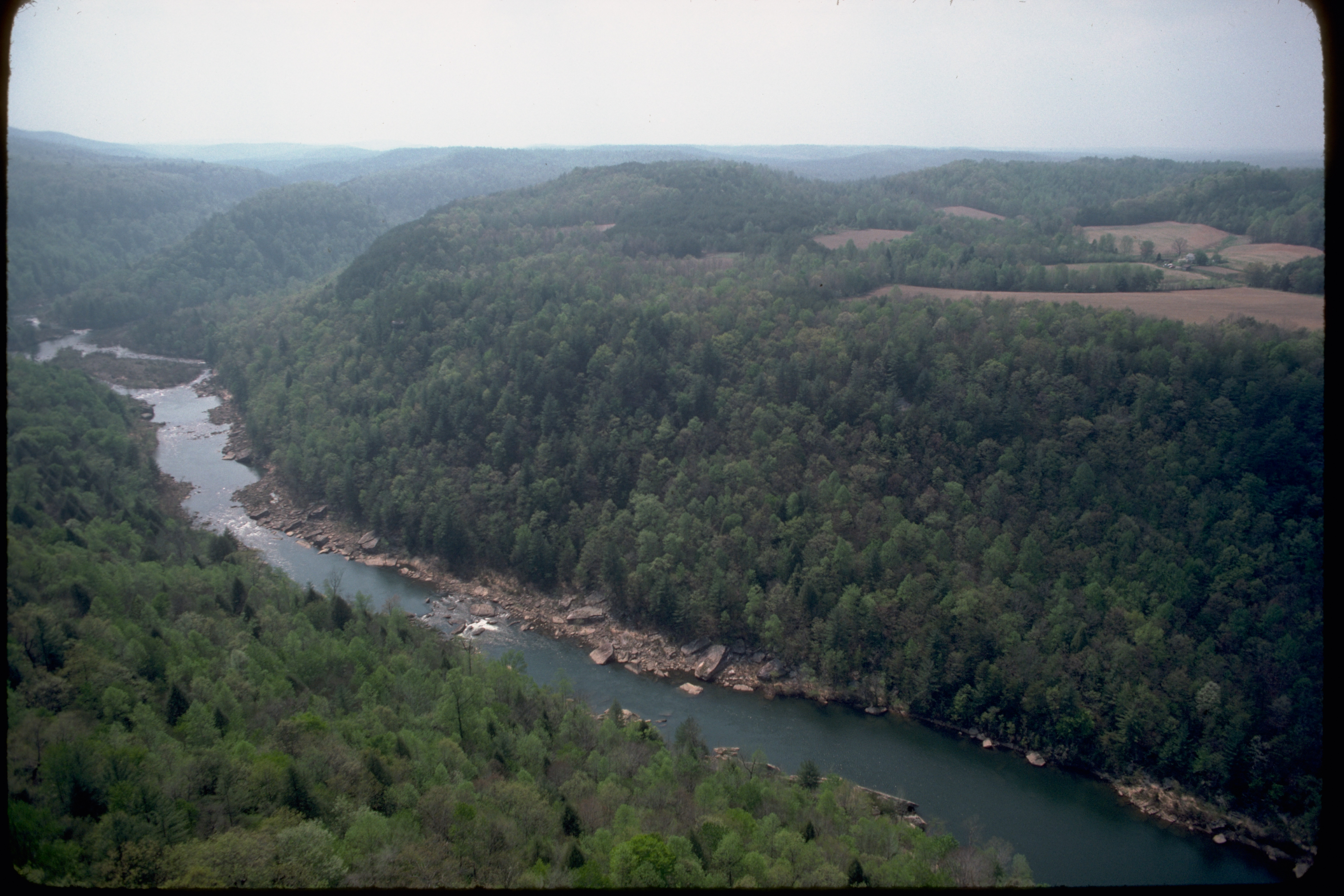 The Obed Wild and Scenic River looks much the same today as it did when the first white settlers strolled its banks in the late 1700s. While meagerly populated due to poor farming soil, the river was a hospitable fishing and hunting area for trappers and pioneers. Today, the Obed stretches along the Cumberland Plateau and offers visitors a variety of outdoor recreational opportunities.